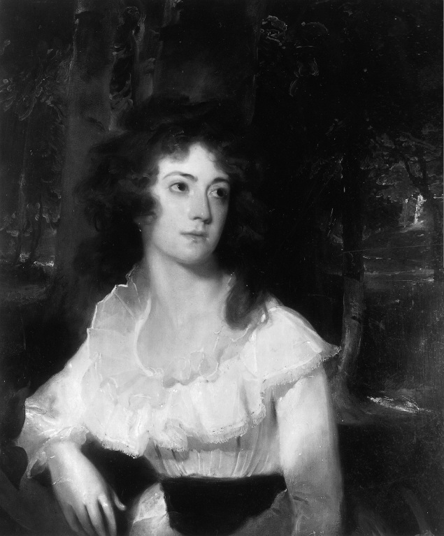 Photograph, Mrs. Magdalene (Redmond) Meredith (1785-1851), painting, copied 1934-35, Silver salts on film (nitrate) - Gelatin silver process - 25 x 20 cm